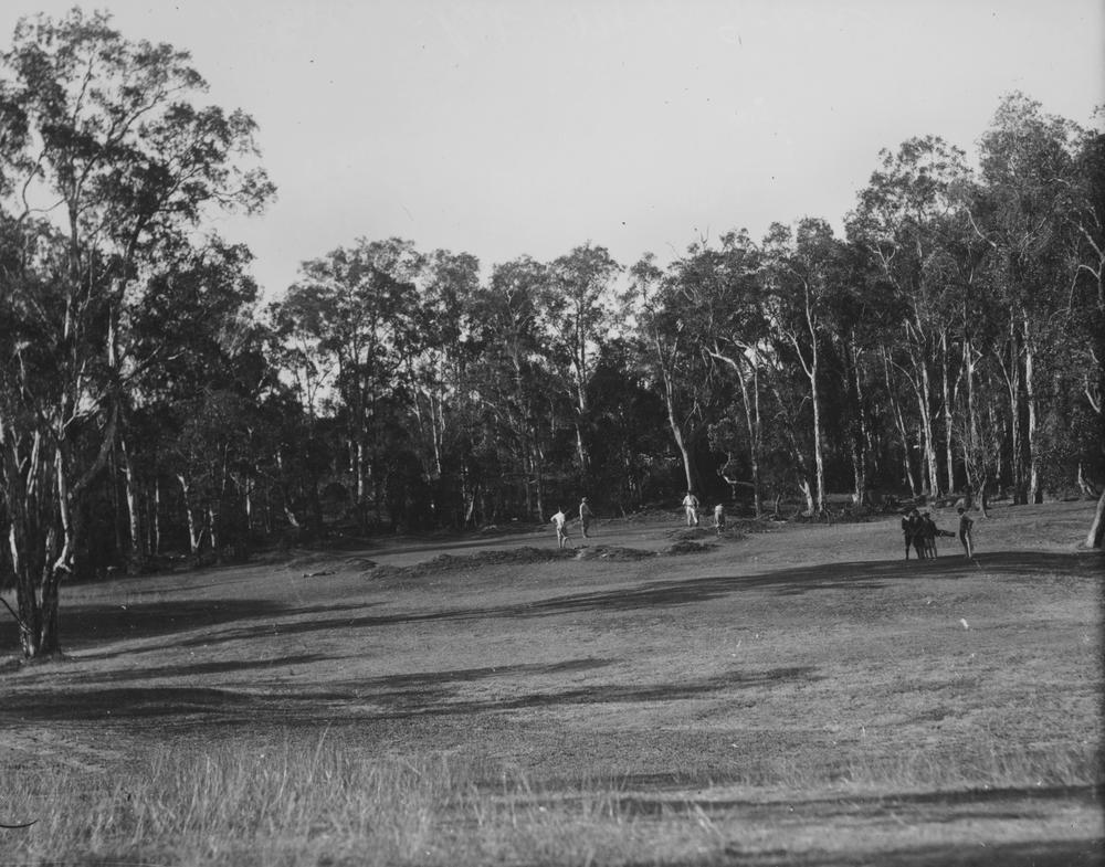 Golfers on the course at Virginia, Brisbane, ca. 1933. Fourth green at the Virginia Golf Club.